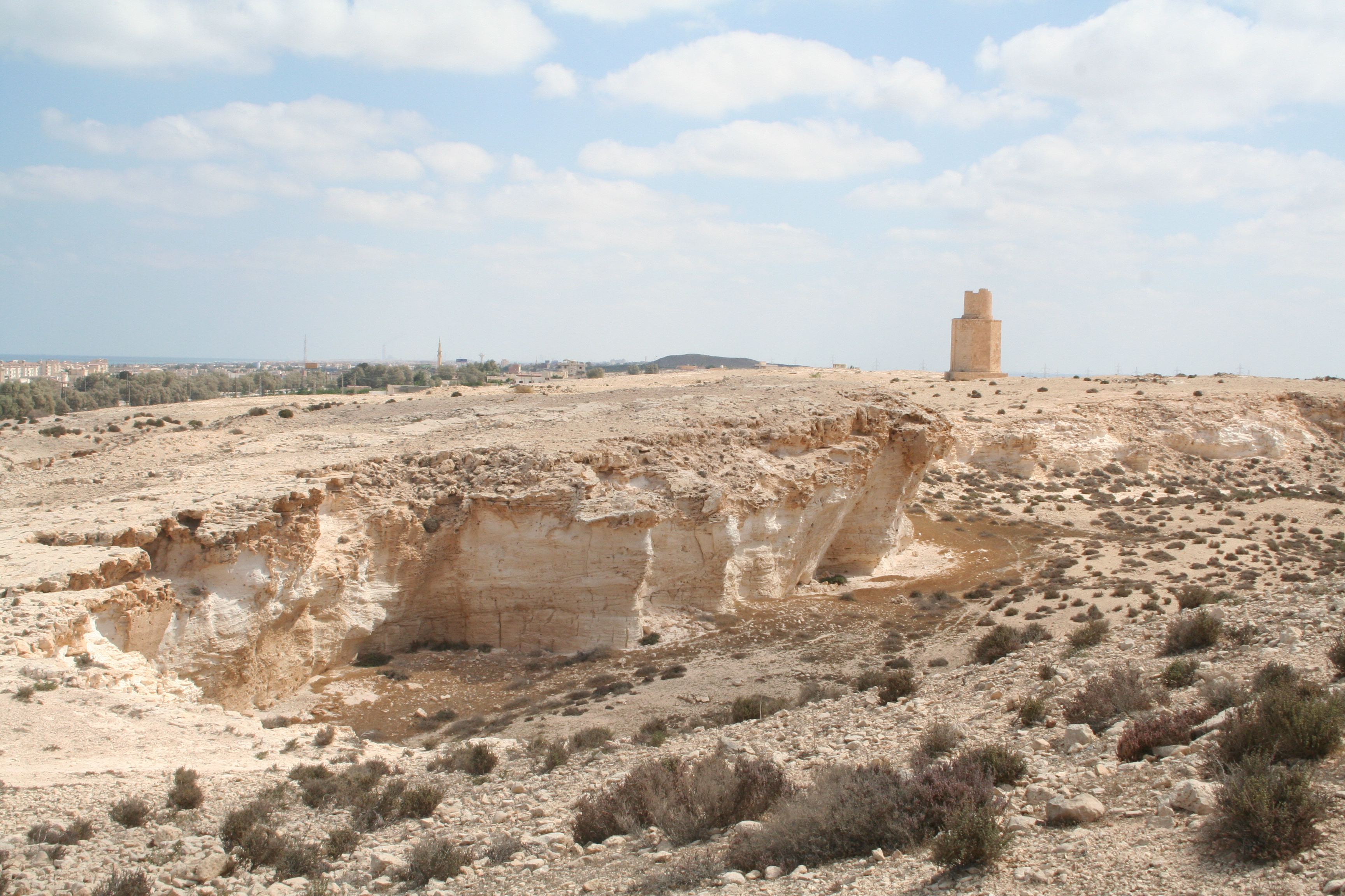 Lighthouse at Taposiris Magna, Ptolemaic or Roman period